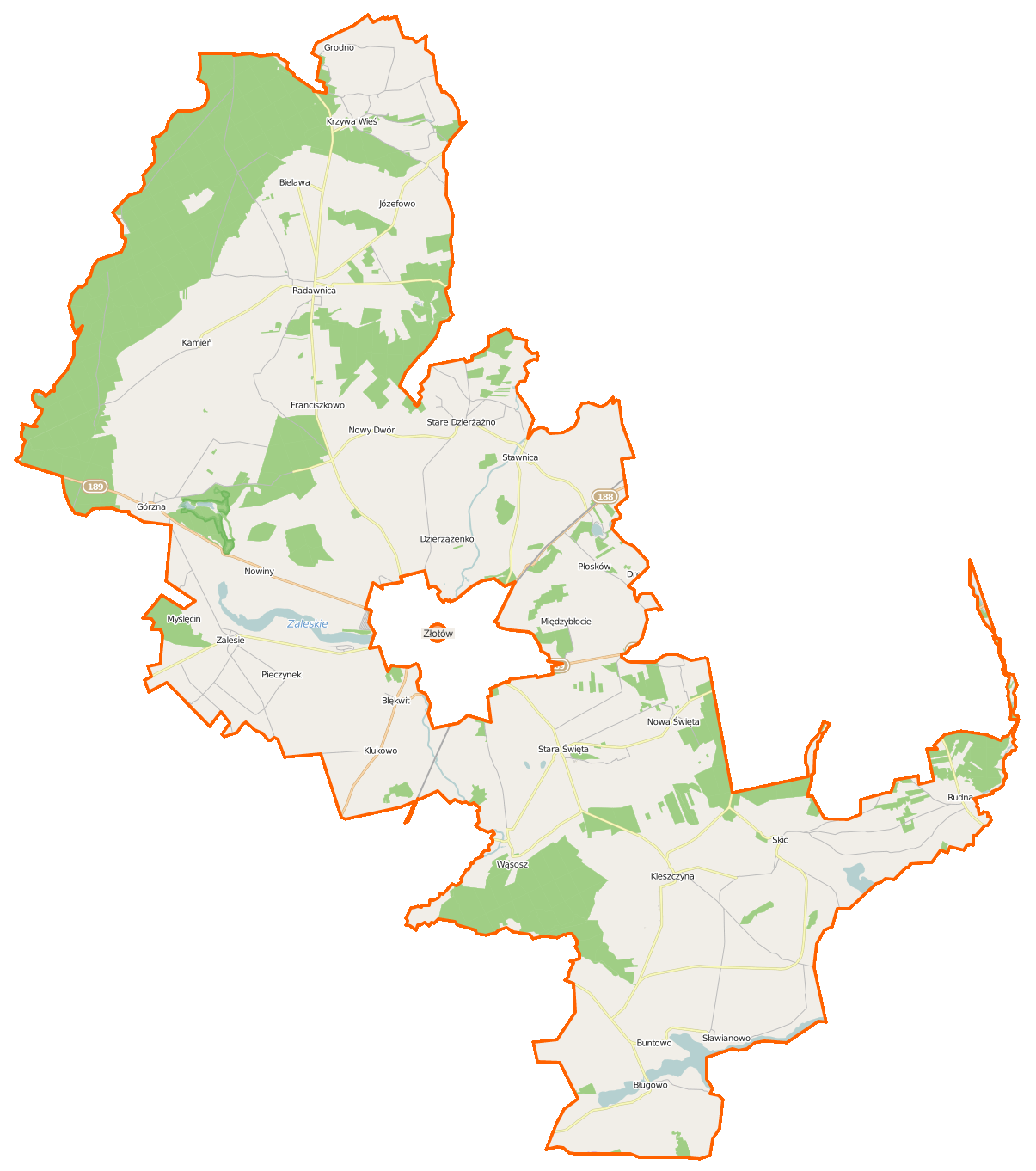 Map of Gmina Złotów, Poland This map of Złotów (gmina wiejska) was created from OpenStreetMap project data, collected by the community. This map may be incomplete, and may contain errors. Don't rely solely on it for navigation.